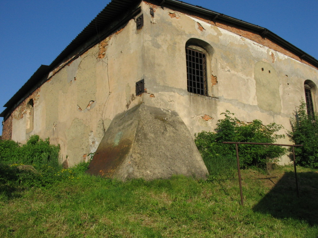 Old Synagogue in Wieliczka